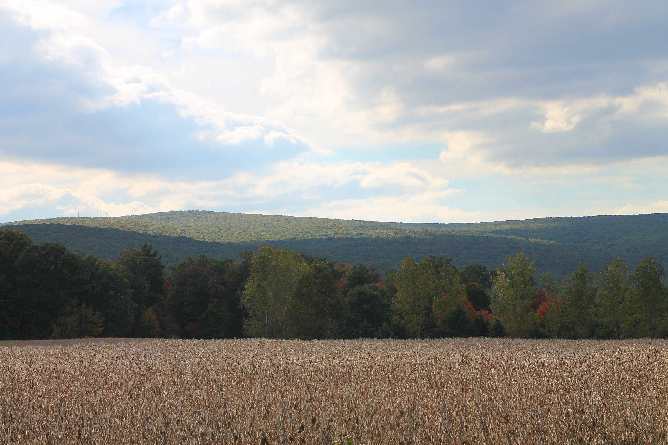 Catawissa Mountain from Fisher Run Road in Main Township, Columbia County, Pennsylvania